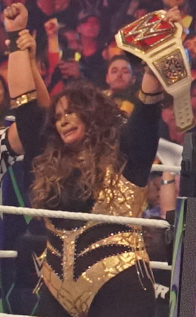 Nia Jax after winning the WWE Raw Women's Championship at WrestleMania 34.